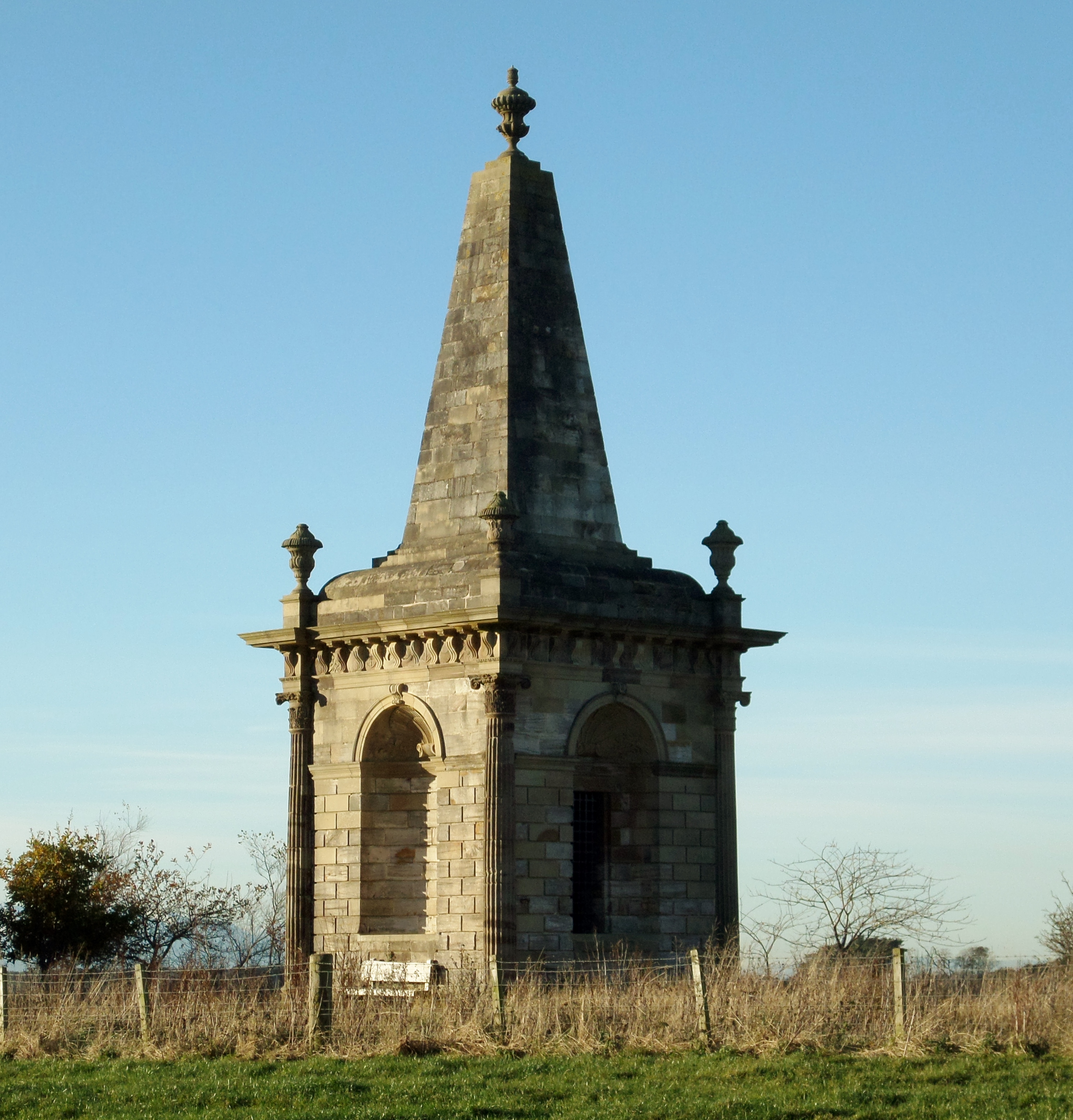 The 1750 James Macrae Monument, Monkton, South Ayrshire, Scotland. Designed by John Swan.